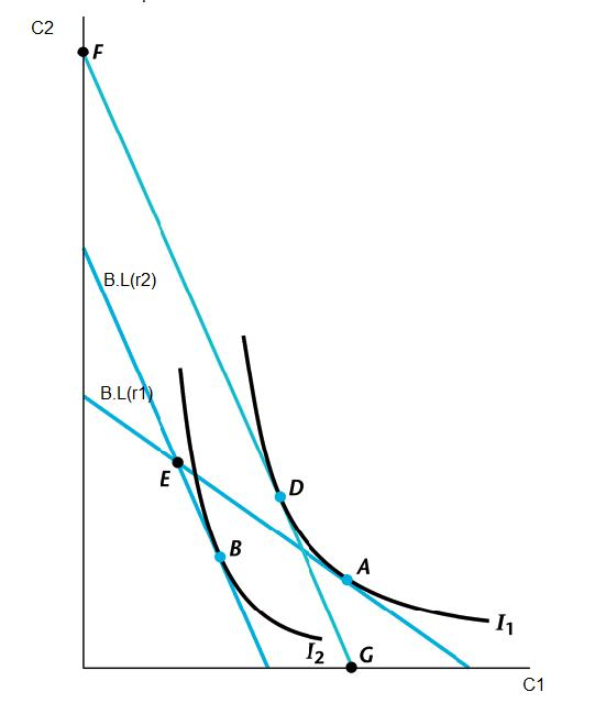 The borrower's choice when interest rate changes.